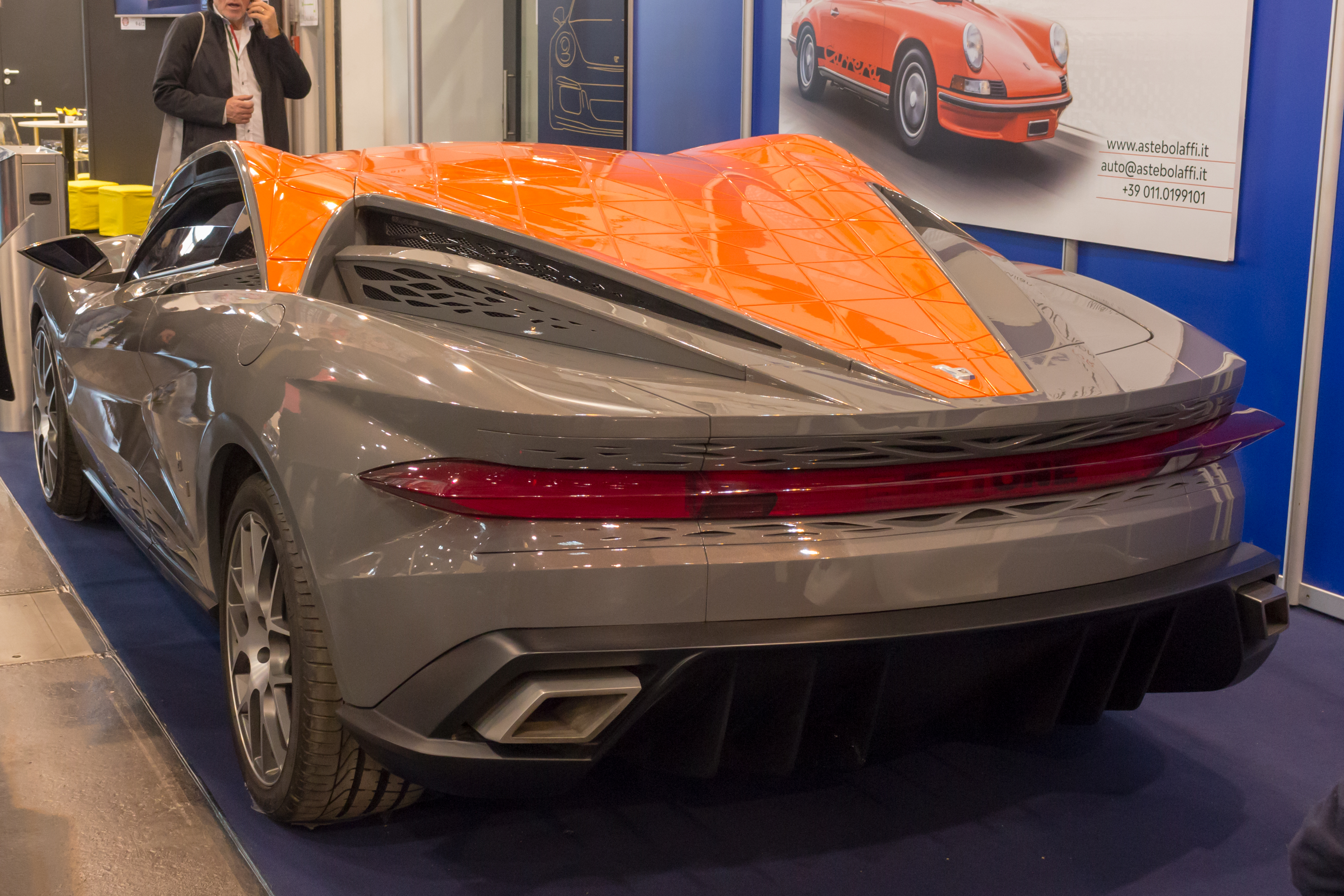 Bertone Nuccio, Techno Classica 2018, Essen